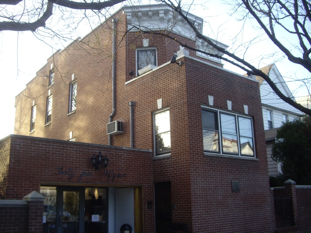 Louis Armstrong House, Corona, Queens